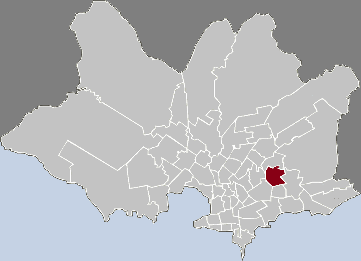 Map highlighting the given barrio in Montevideo.